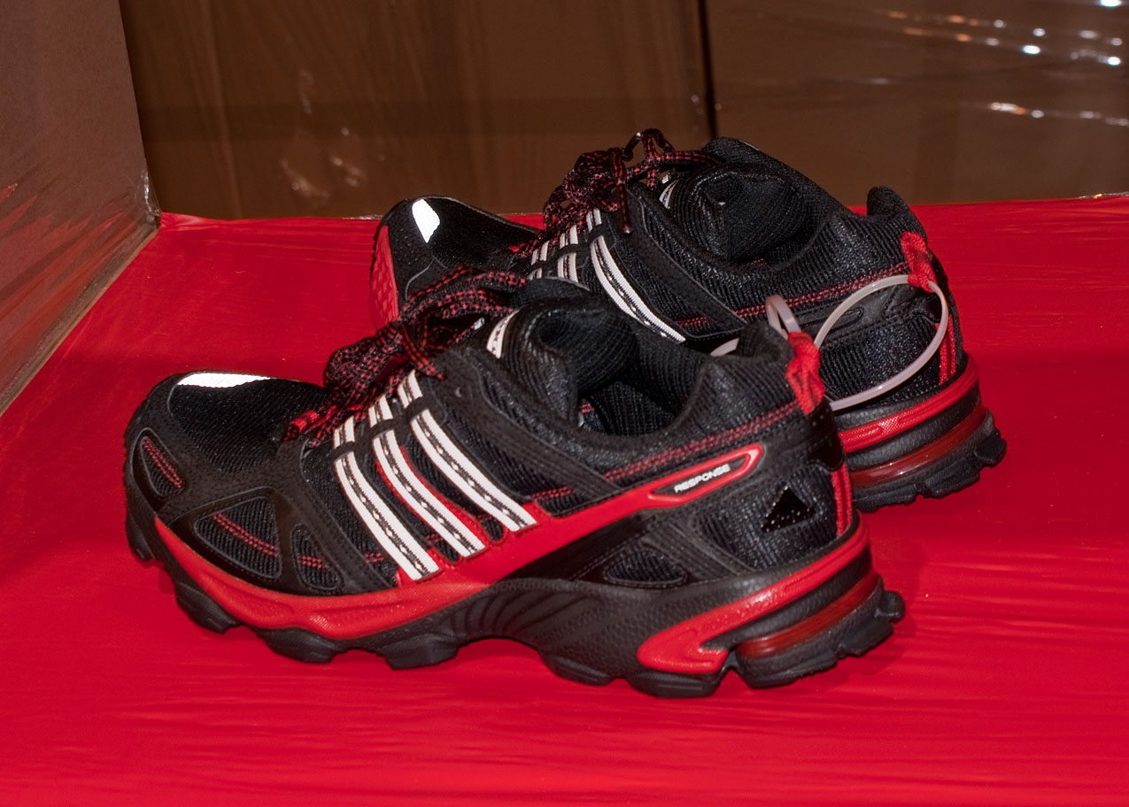 Adidas Response Trail 16 – trail running shoes. Designed by Andrzej "Bartie" Bikowski. "21 design stories" – exhibition at Institute of Industrial Design in Warsaw.